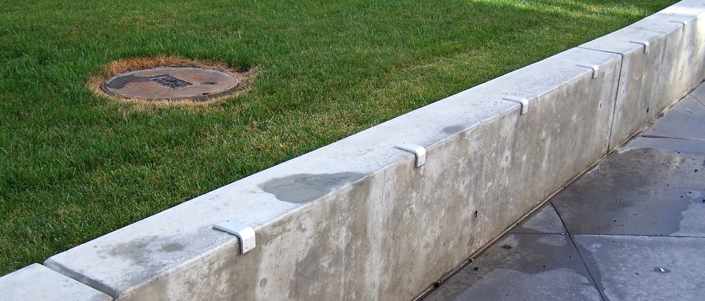 This is an image of a concrete wall studded with metal plates to prevent grinding in sports such as skateboarding and rollerskating.